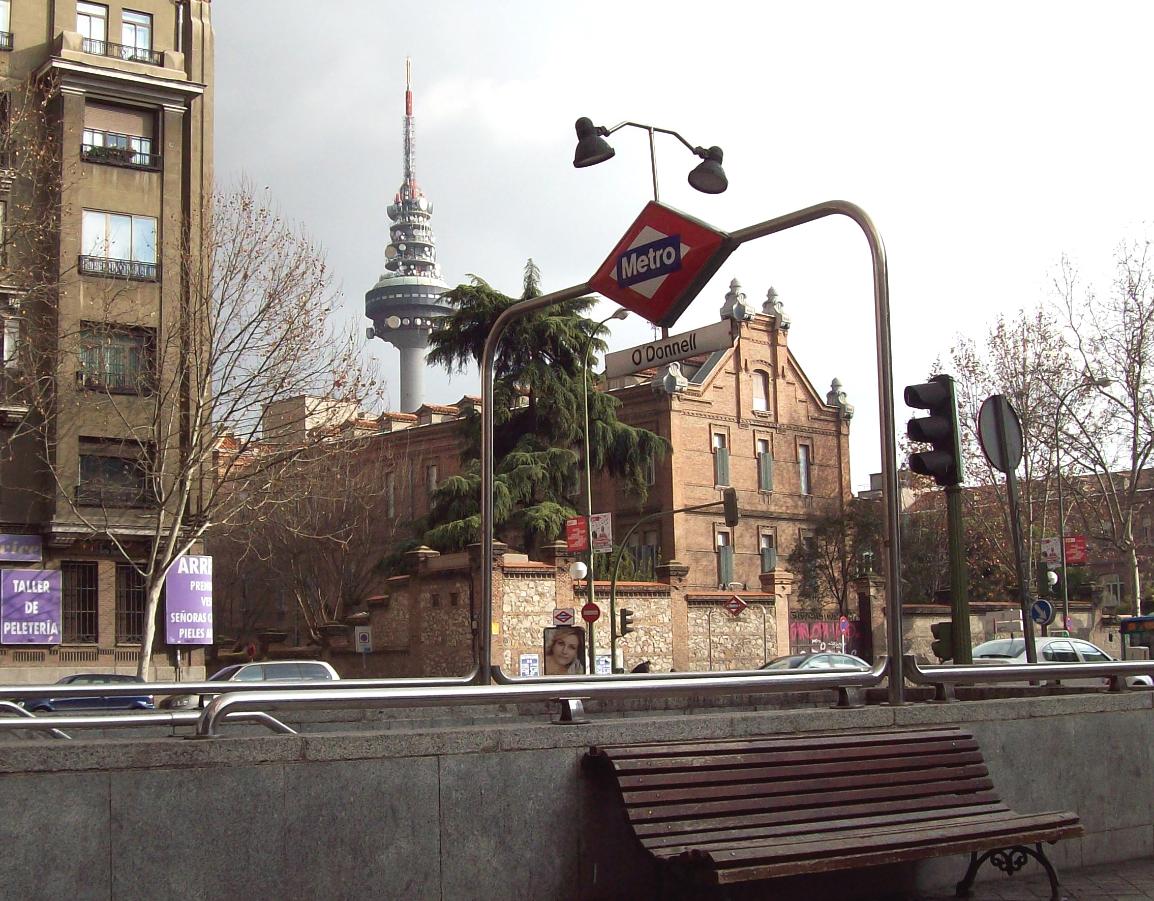 Entrance of O'Donnell metro station in Madrid (Spain).